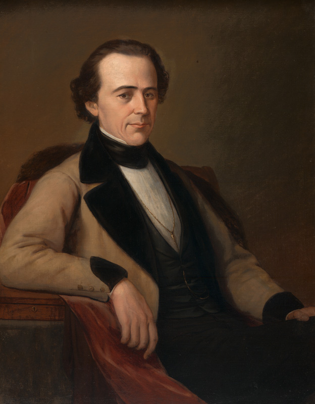 Manuel Micheltorena (d. 1853), Governor of Alta California 1842-45